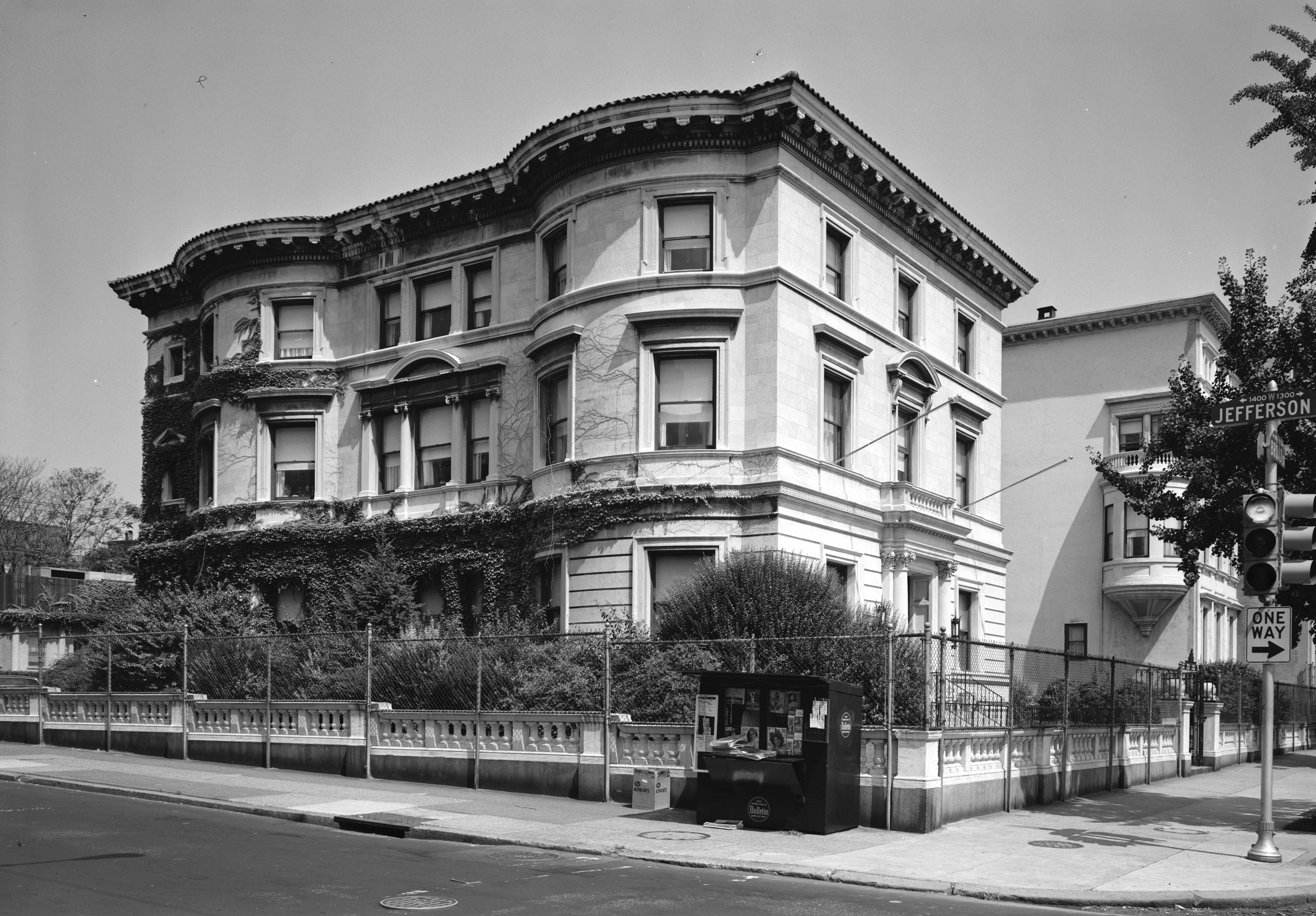 Alfred E. Burk House, 1500 N. Broad Street, Philadelphia, PA (NW corner of Jefferson and Broad). Part of the North Broad Street Mansion District on the NRHP since March 29, 1985. The historic district is roughly bounded by Broad, Jefferson, Willington, and Oxford Sts. in the North Central neighborhood of North Philly. This is the side view from Jefferson, front view available from same source